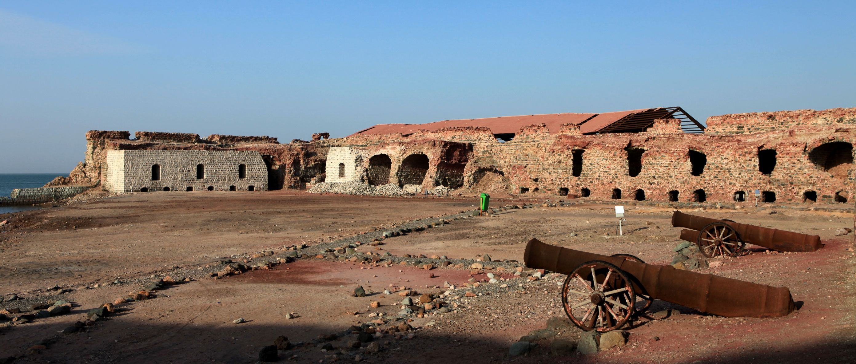 Hormoz Island, Persian Gulf, Iran, the Portuguese fortress